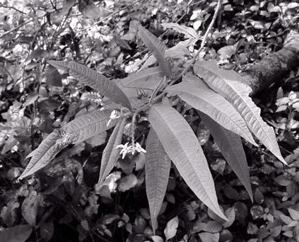 Solanum drymophilum USFWS photo